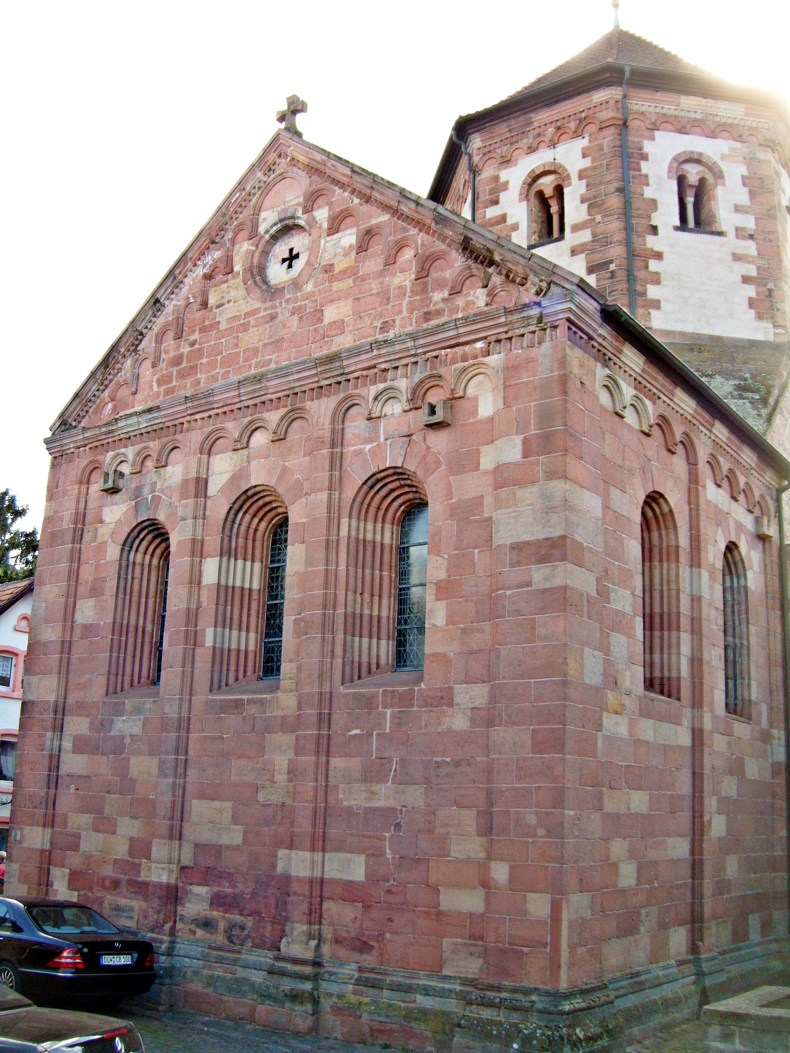 Seebach Klosterkirche Chor